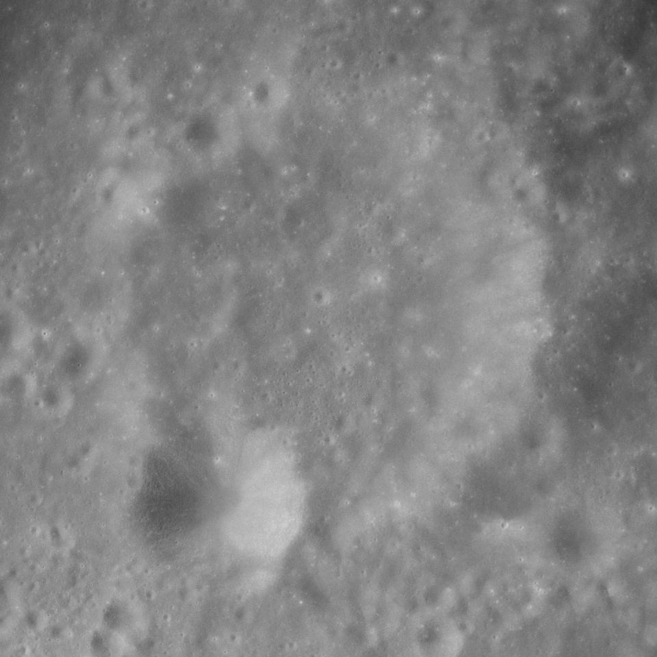 Slightly oblique view Dale, on the far side of the moon.